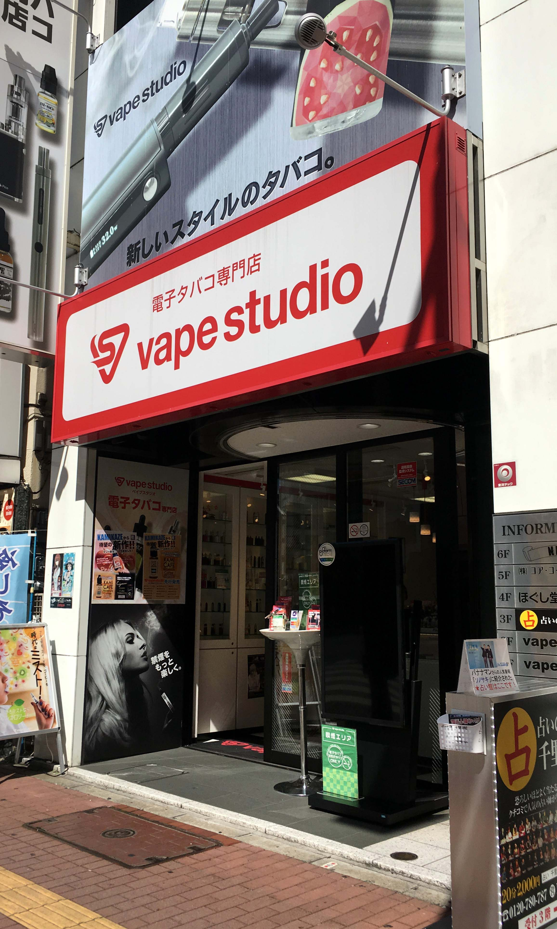 Vape studio Ikebukuro-higashiguchi branch (Tokyo, Japan)